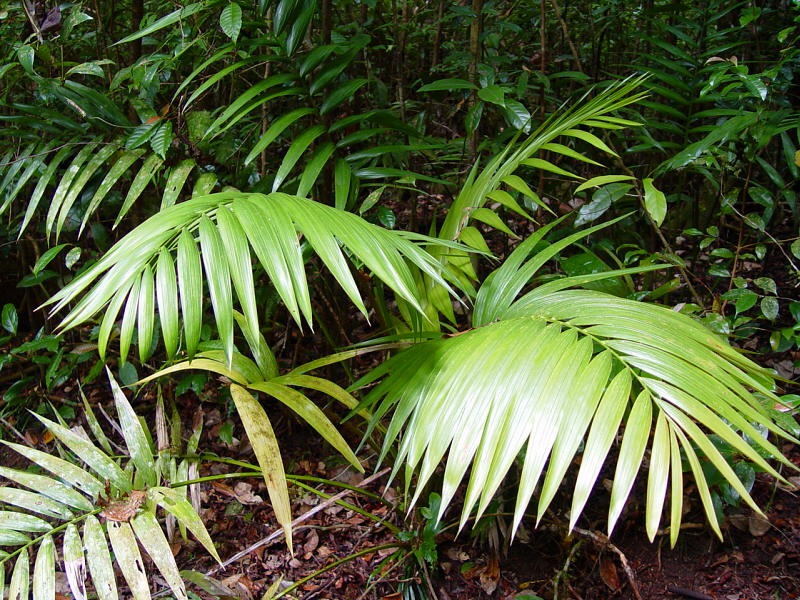 Laccospadix australasica. One of the broad-pinna plants of this species that Mt. Lewis is noted for.